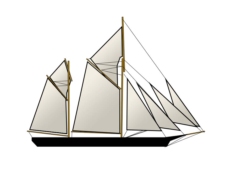 A diagram of a ketch: gaff-rigged main sail and mizzen sail, Bermuda-rigged main topsail, and lug-rigged mizzen topsail, with four jibs.